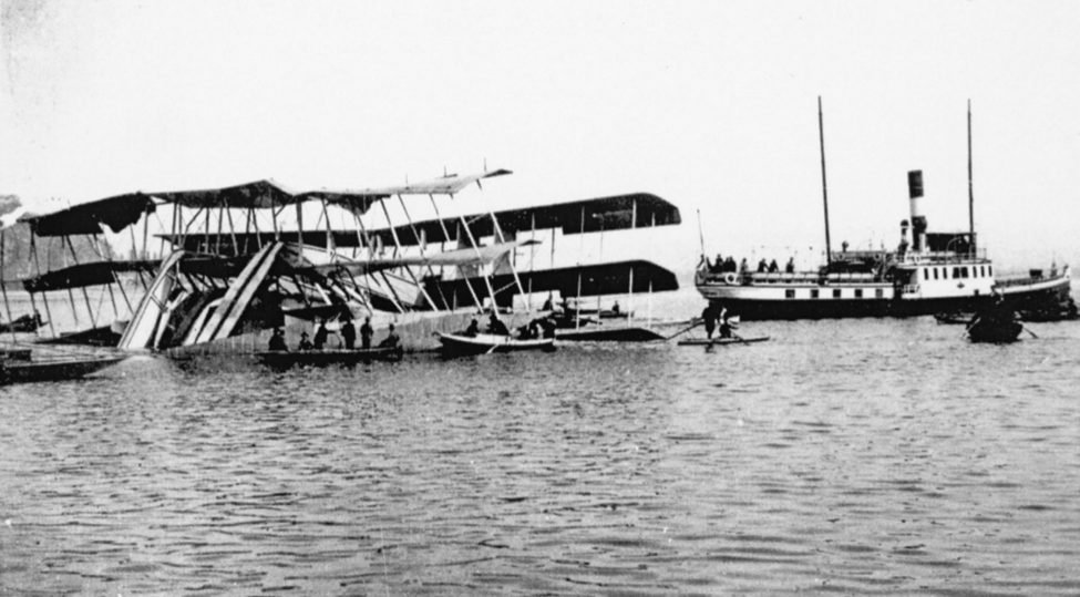 The Caproni Ca.60, Gianni Caproni's ambitious nine-winged prototype airliner, is towed to shore on the Lake Maggiore after crashing on March 4, 1921, at the end of its second test flight.